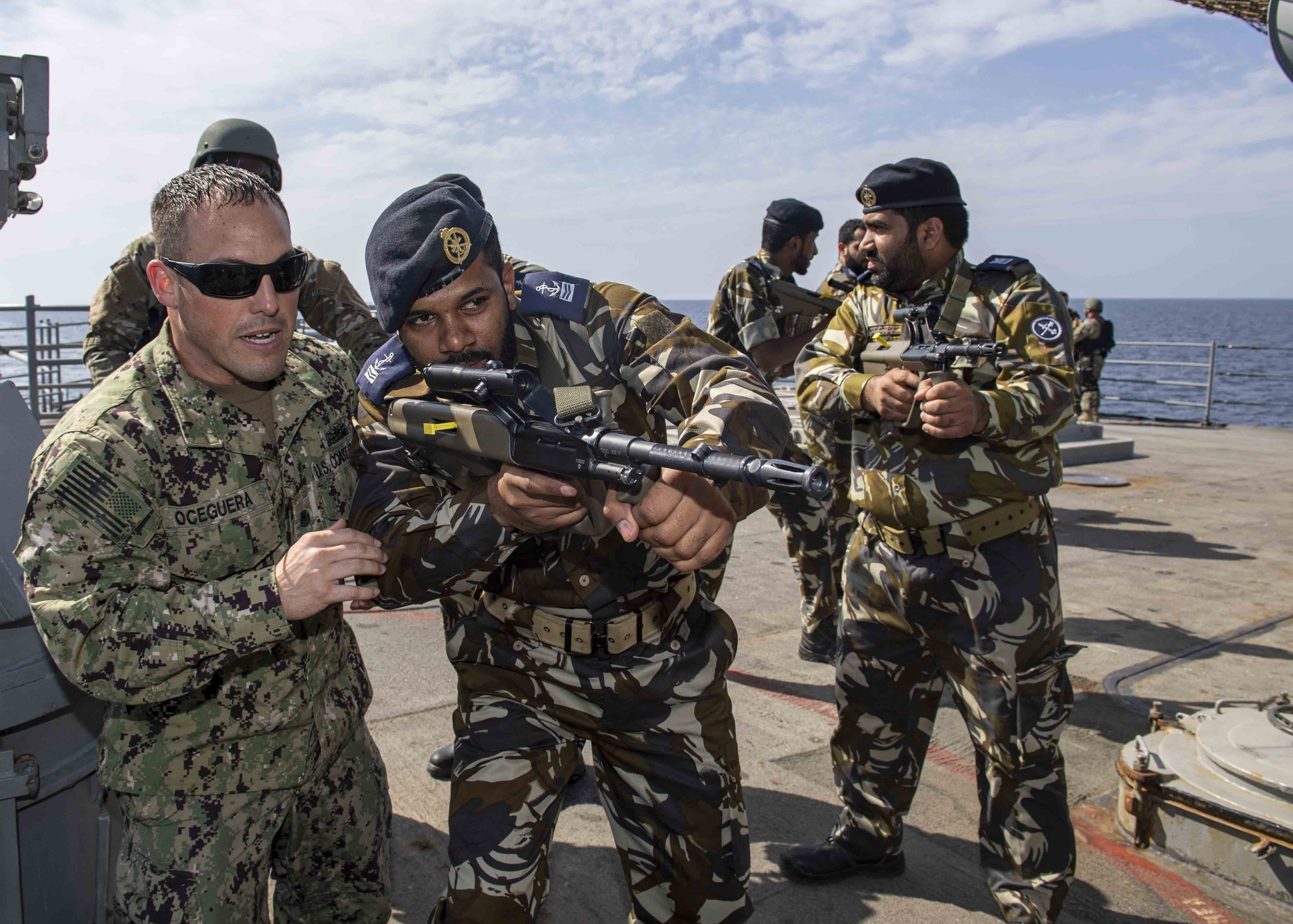 GULF OF OMAN (Nov. 8, 2019) U.S. Coast Guard Maritime Enforcement Specialist 1st Class Jeff Oceguera, left, assigned to U.S. Coast Guard Patrol Forces Southwest Asia, gives tactical team movement training to Royal Navy of Oman sailors as part of a visit, board, search, and seizure drill aboard the guided-missile cruiser USS Normandy (CG 60) during International Maritime Exercise 2019 (IMX 19). The exercise is a multinational engagement involving partners and allies from around the world designed to facilitate the sharing of knowledge and experiences across the full spectrum of defensive maritime operations. IMX 19 serves to demonstrate the global resolve in maintaining regional security and stability, freedom of navigation and the free flow of commerce from the Suez Canal south to the Bab el-Mandeb Strait through the Strait of Hormuz to the Northern Arabian Gulf. (U.S. Navy photo by Mass Communication Specialist 2nd Class Michael H. Lehman/Released) 191108-N-PC620-0547